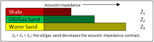 Diagram showing the acoustic relationship that results in a seismic dim spot.